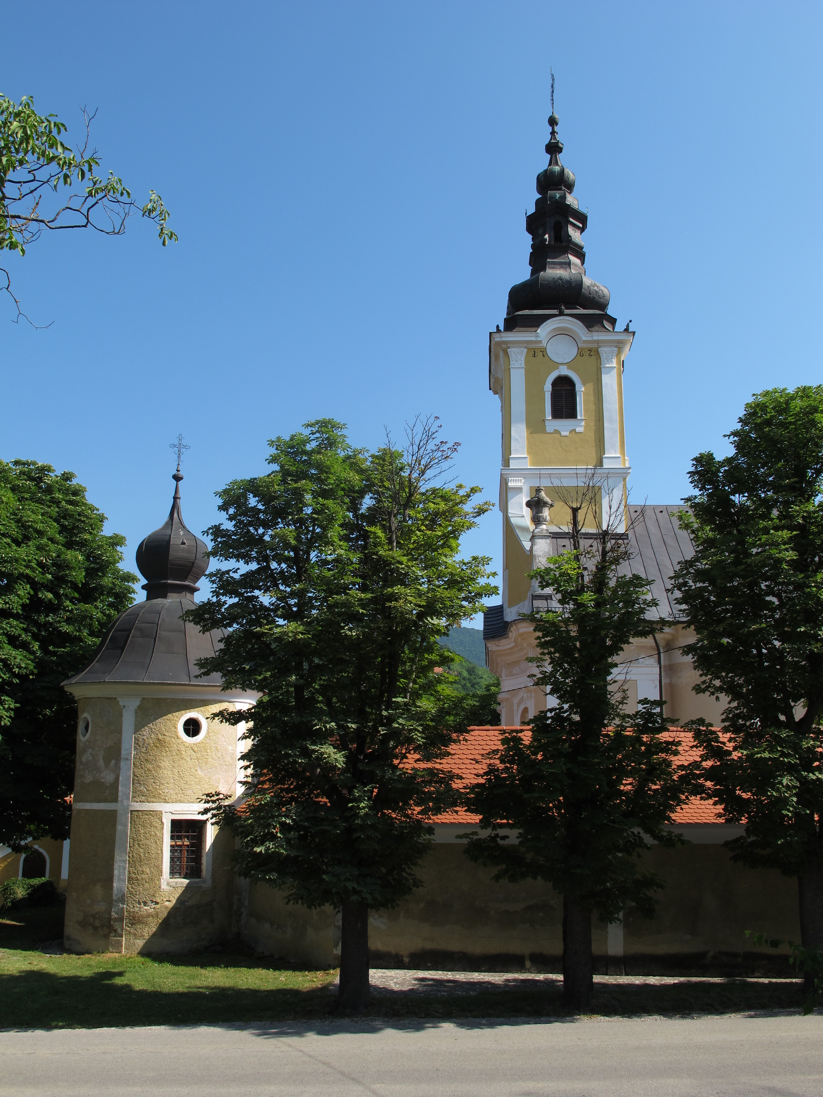 Church Trški Vrh